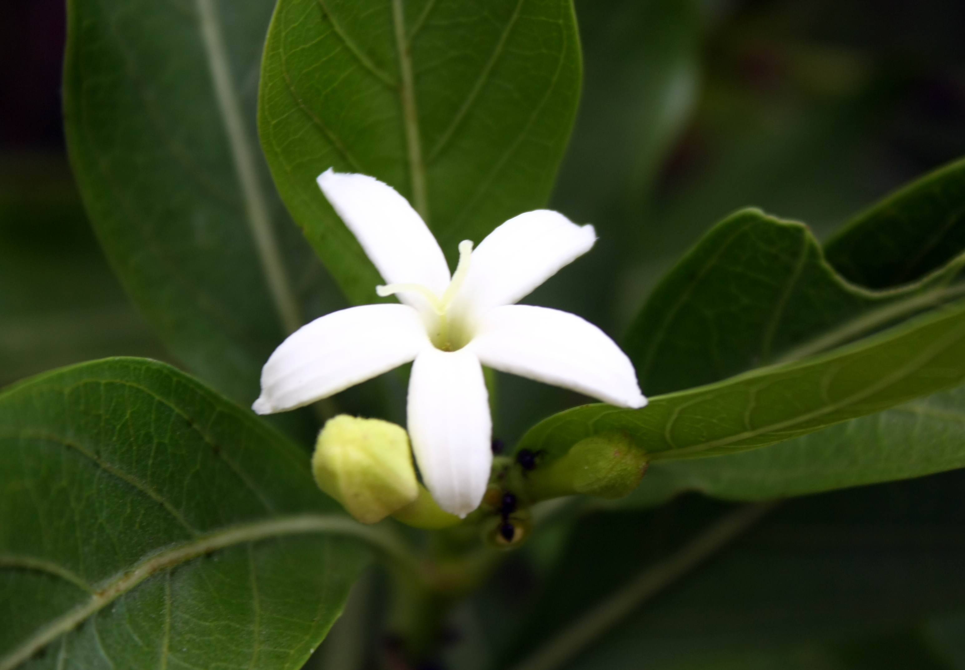 Flower of Morinda tinctoria (Indian Mulberry)